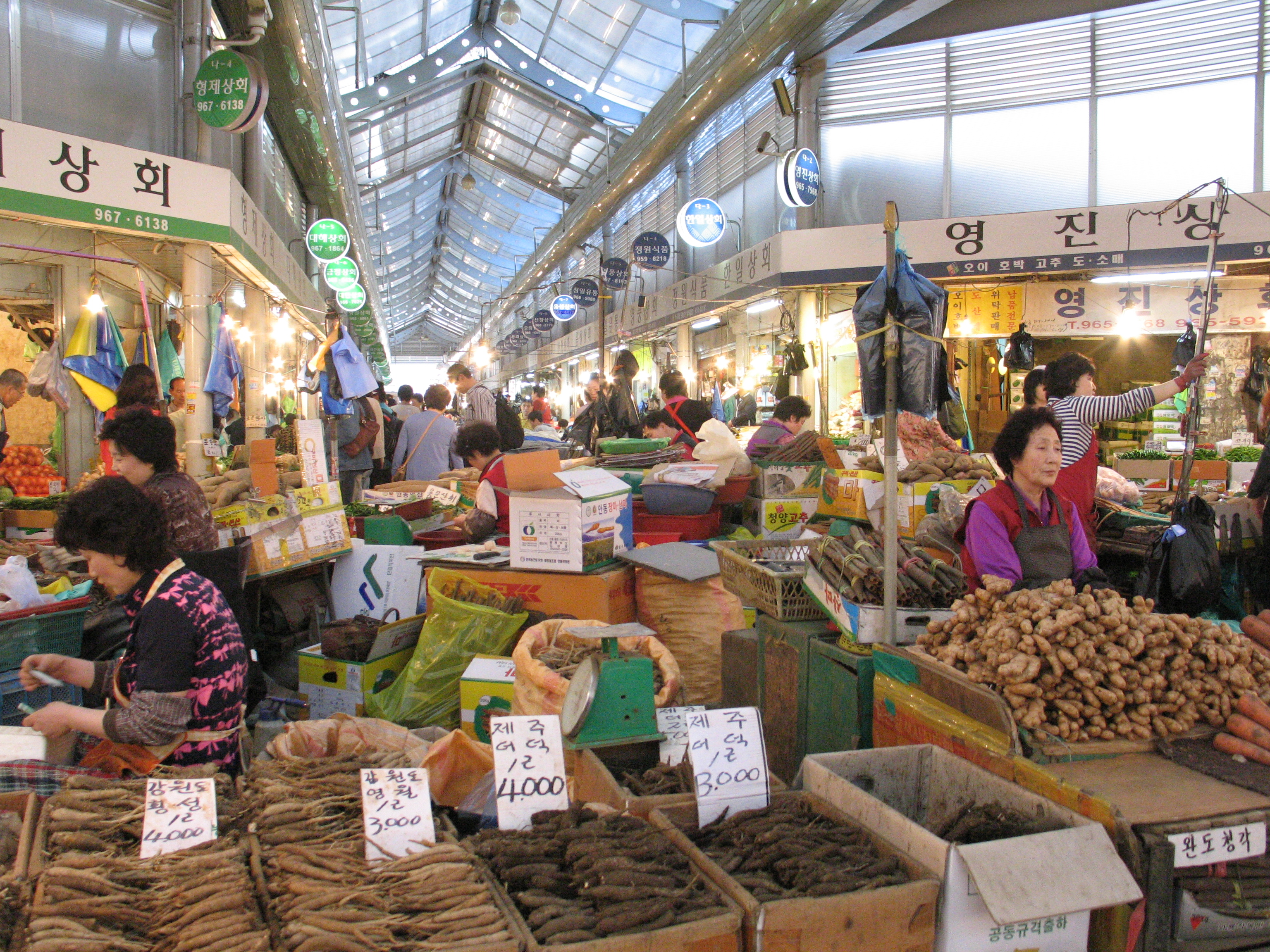 Gyeongdong Market, located in Jaegi-dong area of Dongdaemun-gu, Seoul is the largest oriental herbal market of South Korea.